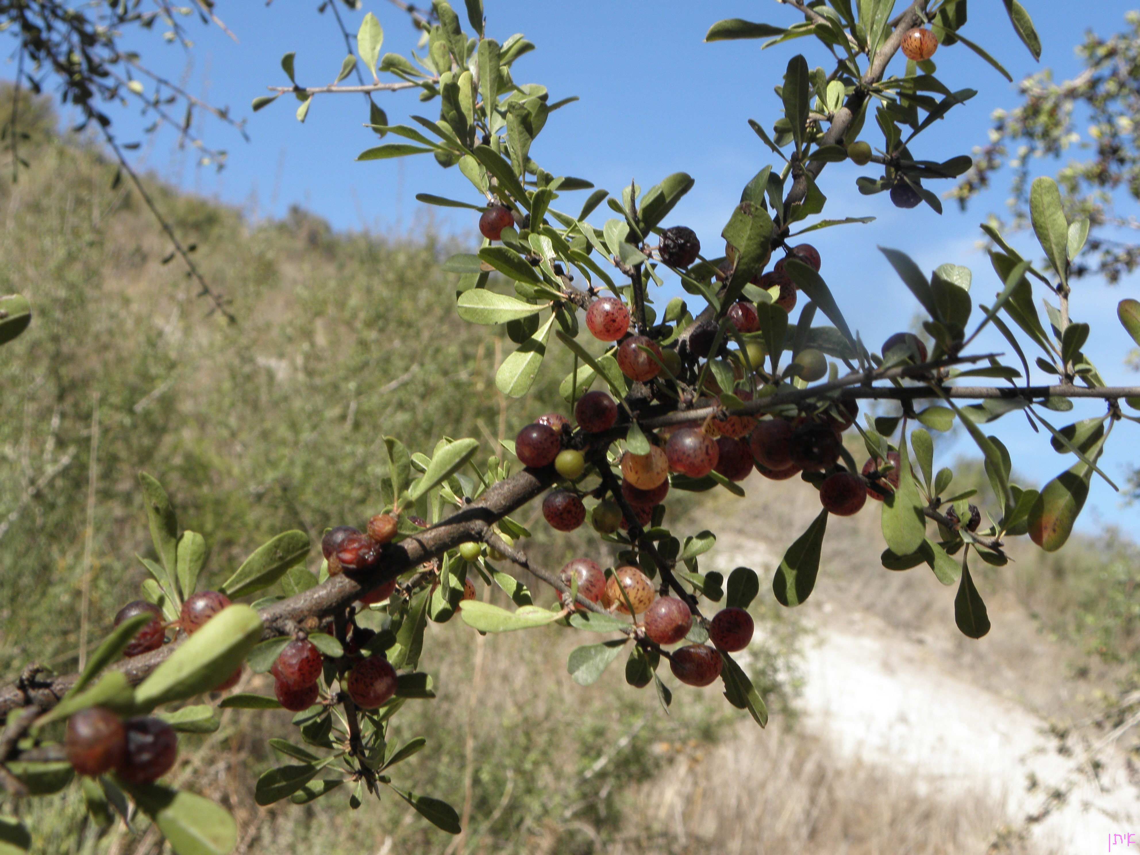 Rhamnus lycioides, Menashe hills אשחר ארץ-ישראלי, בגבעה מעל נחל סנין